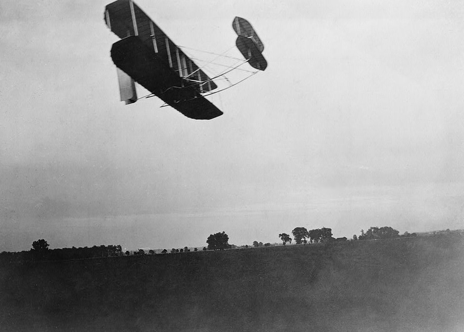 Side view of the 1905 Wright Flyer III during its 41st flight, showing the machine traveling to the right, with double horizontal rudder in front and double vertical rudder behind, as Orville Wrigth flew 12 miles at Huffman Prairie. Dayton, Ohio, September 29, 1905.